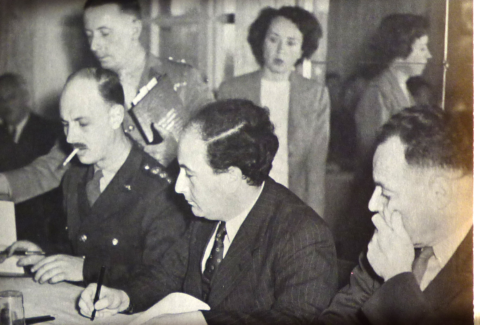 Israeli delegation leader, Walter Eytan, signs the Armistice Agreement between Israel and Egypt. To his right is Israel's Acting Chief of Staff, General Yigal Yadin.